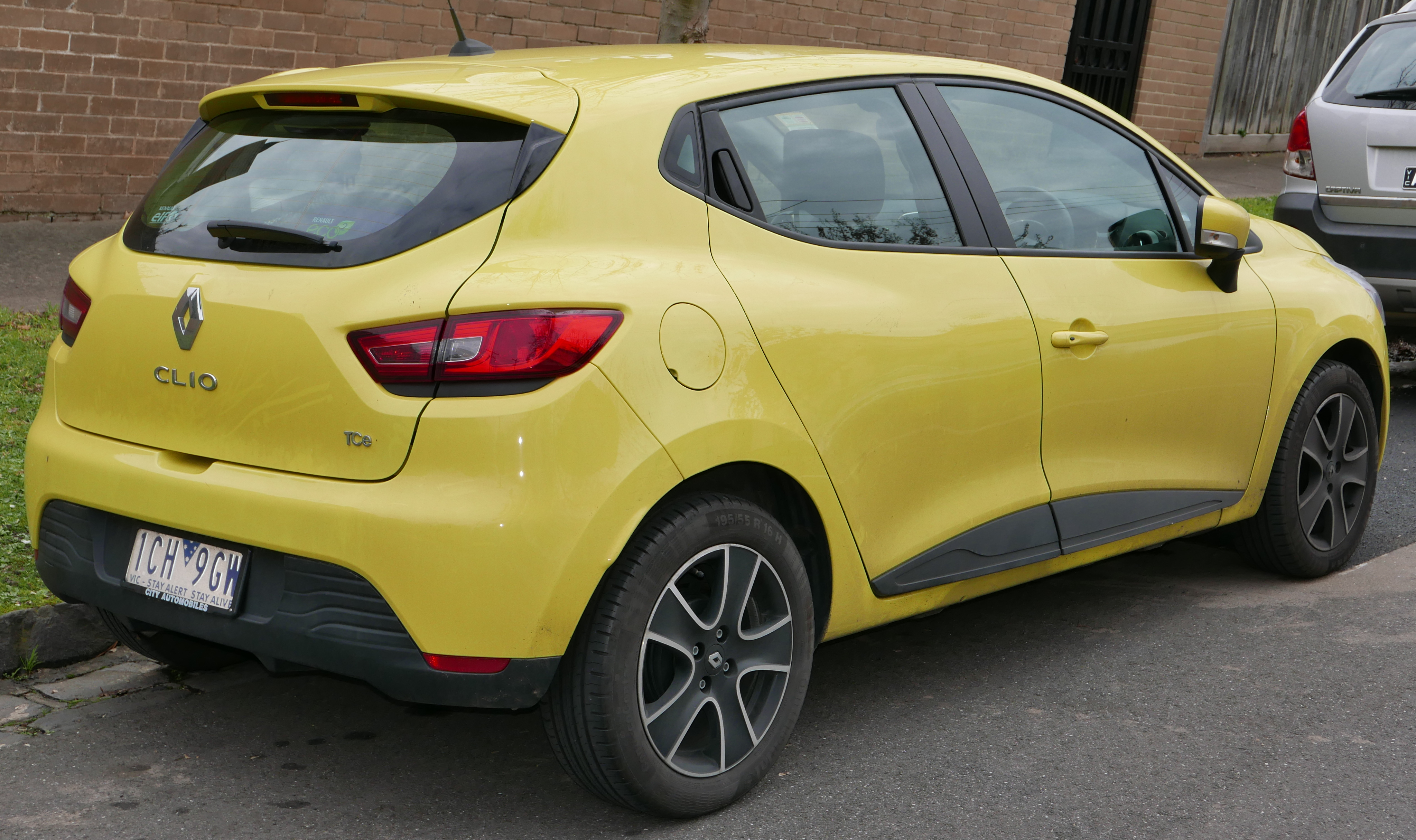 2014 Renault Clio (X98) Expression TCe 90 hatchback. Photographed in Kew, Victoria, Australia. Vehicle registration enquiry results Jurisdiction Victoria Registration 1CH9GW Chassis code VF15R5A0HE0698226 Engine code U155324 Compliance date 2014-03 Year of manufacture 2014